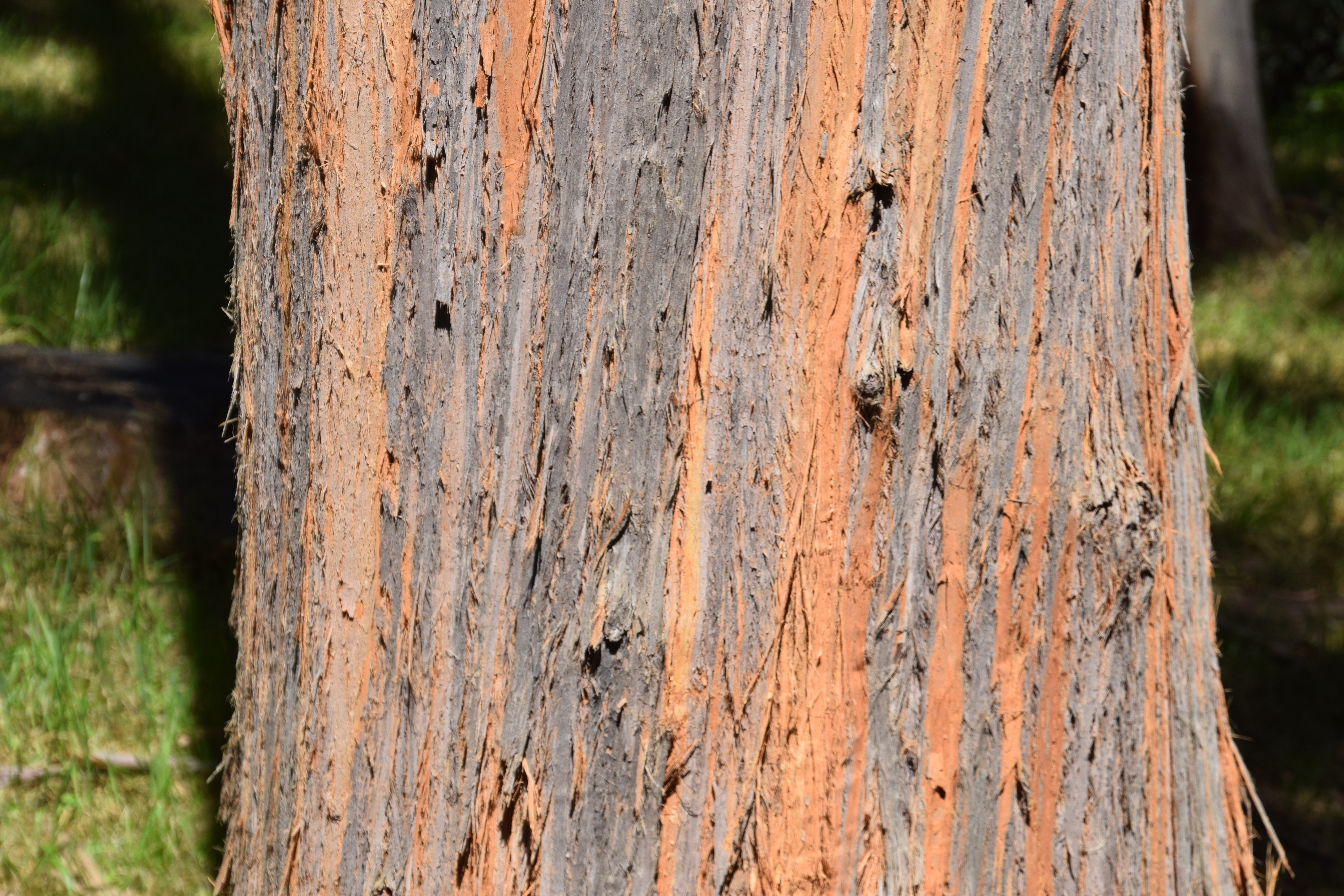 Eucalyptus delegatensis in Dunedin Botanic Garden, Dunedin, New Zealand